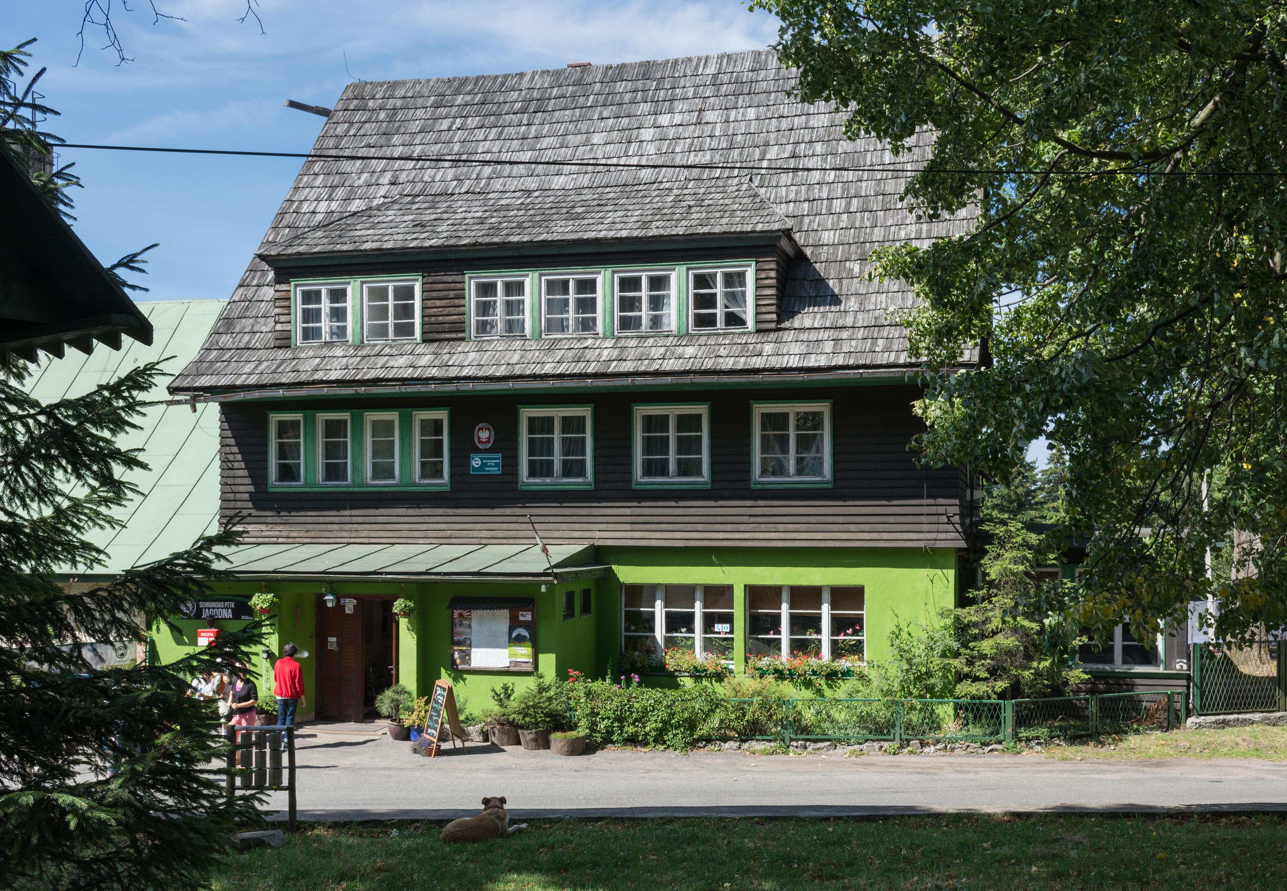 Jagodna Hostel